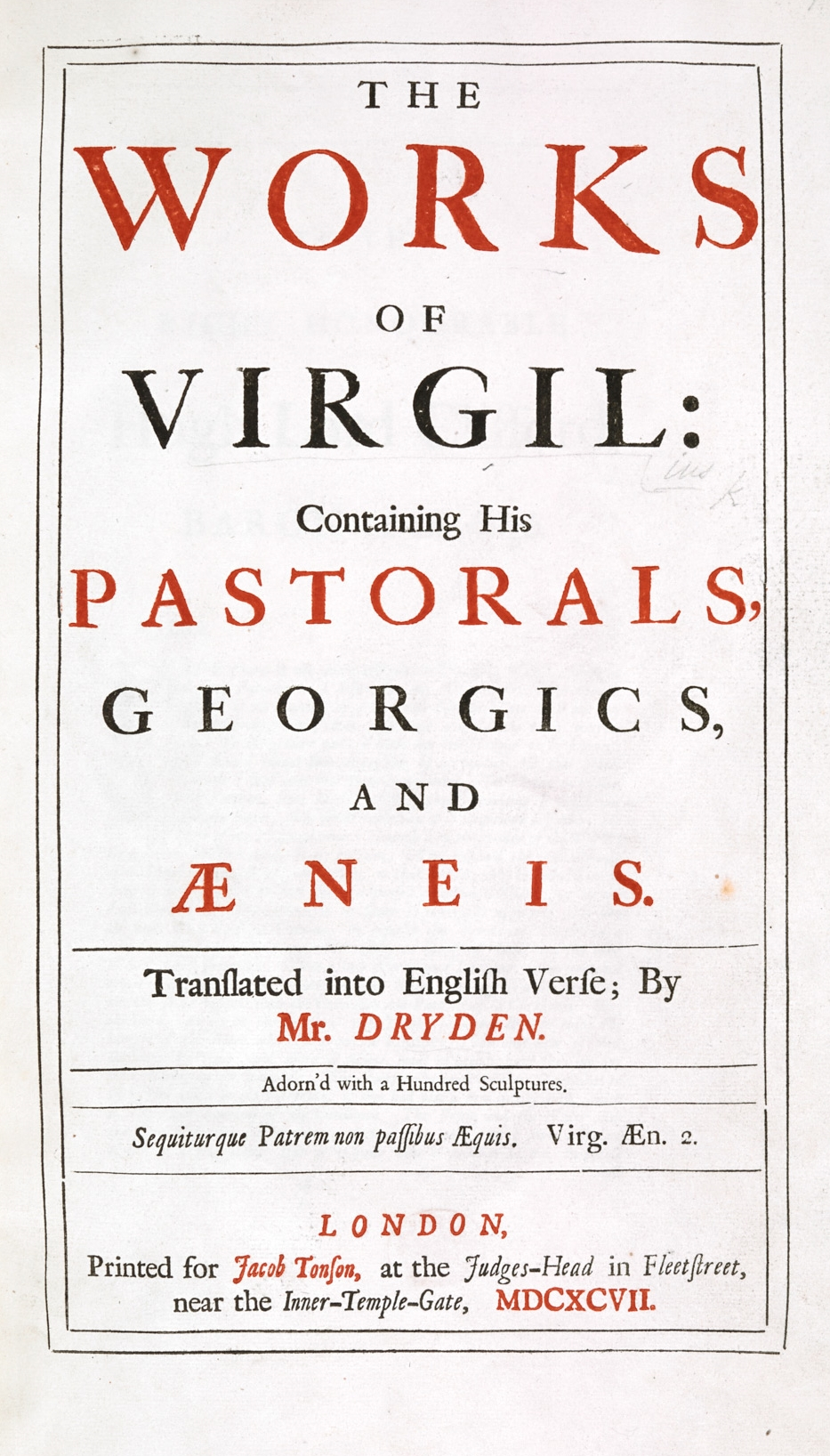 John Dryden, tr., The Works of Virgil (1697) title page